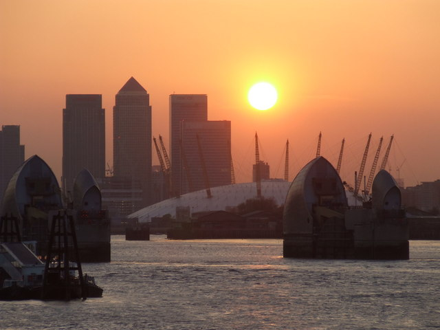 Thames sunset Sunset over the Thames Barrier, O2 and Canary Wharf